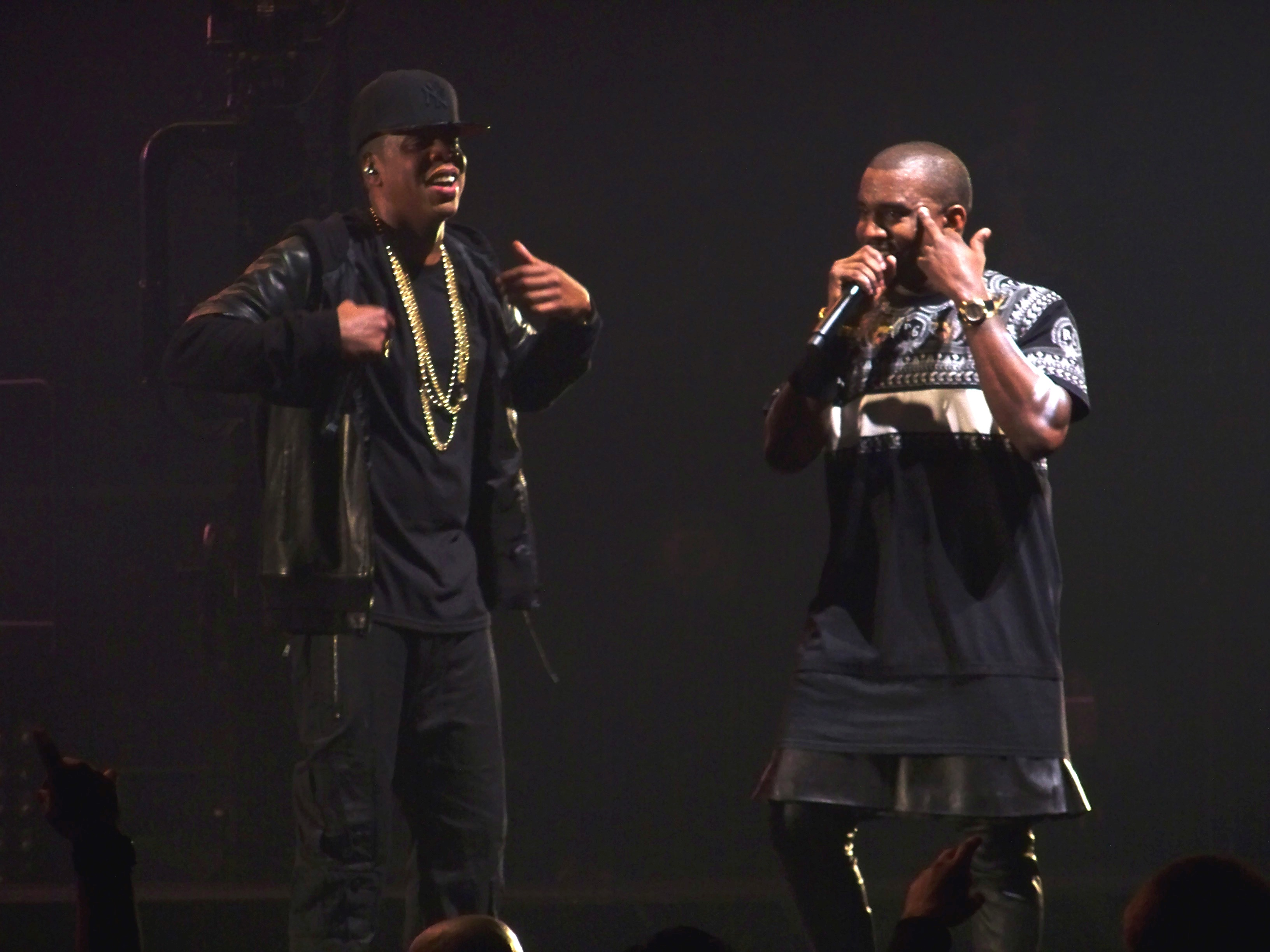 Kanye West and Jay-Z performing at Staples Center on December 11, 2011 in Los Angeles on their Watch the Throne Tour.